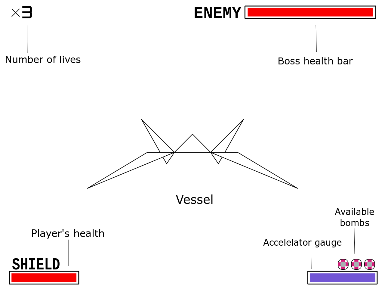 The interface of the video game Star Fox